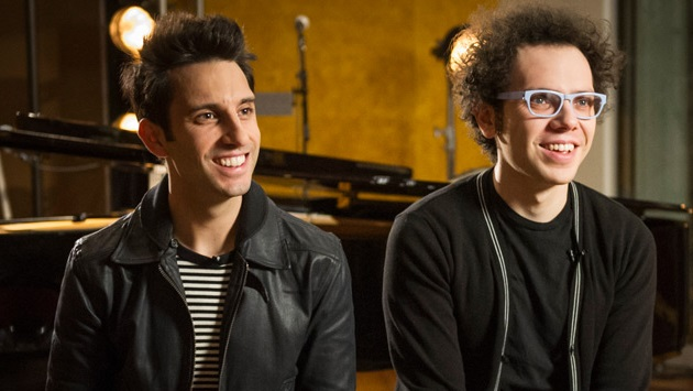 A Great Big World at the Walmart Soundcheck in 2014